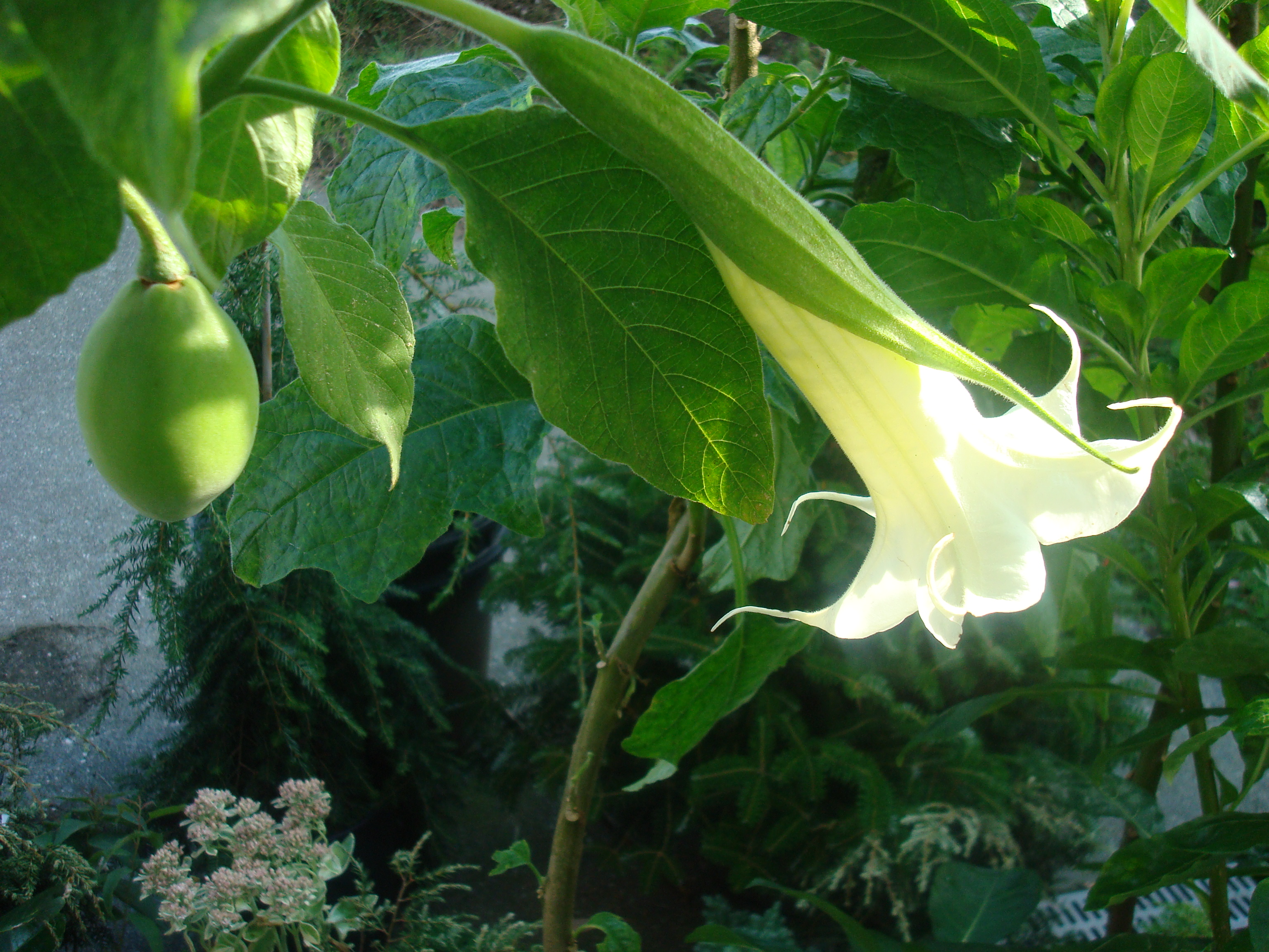 Brugmansia arborea flower with seed pod. Note the long green calyx typical of B. arborea.